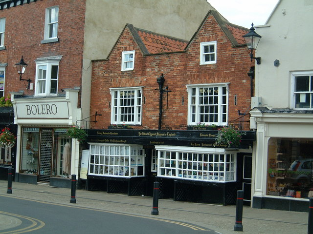 Ye Oldest Chymist Shoppe In England. Apparently, this is the oldest chemist shop in England, in Market Place in Knaresborough. It sells sweets and cakes now, with tea rooms upstairs. Very quaint!